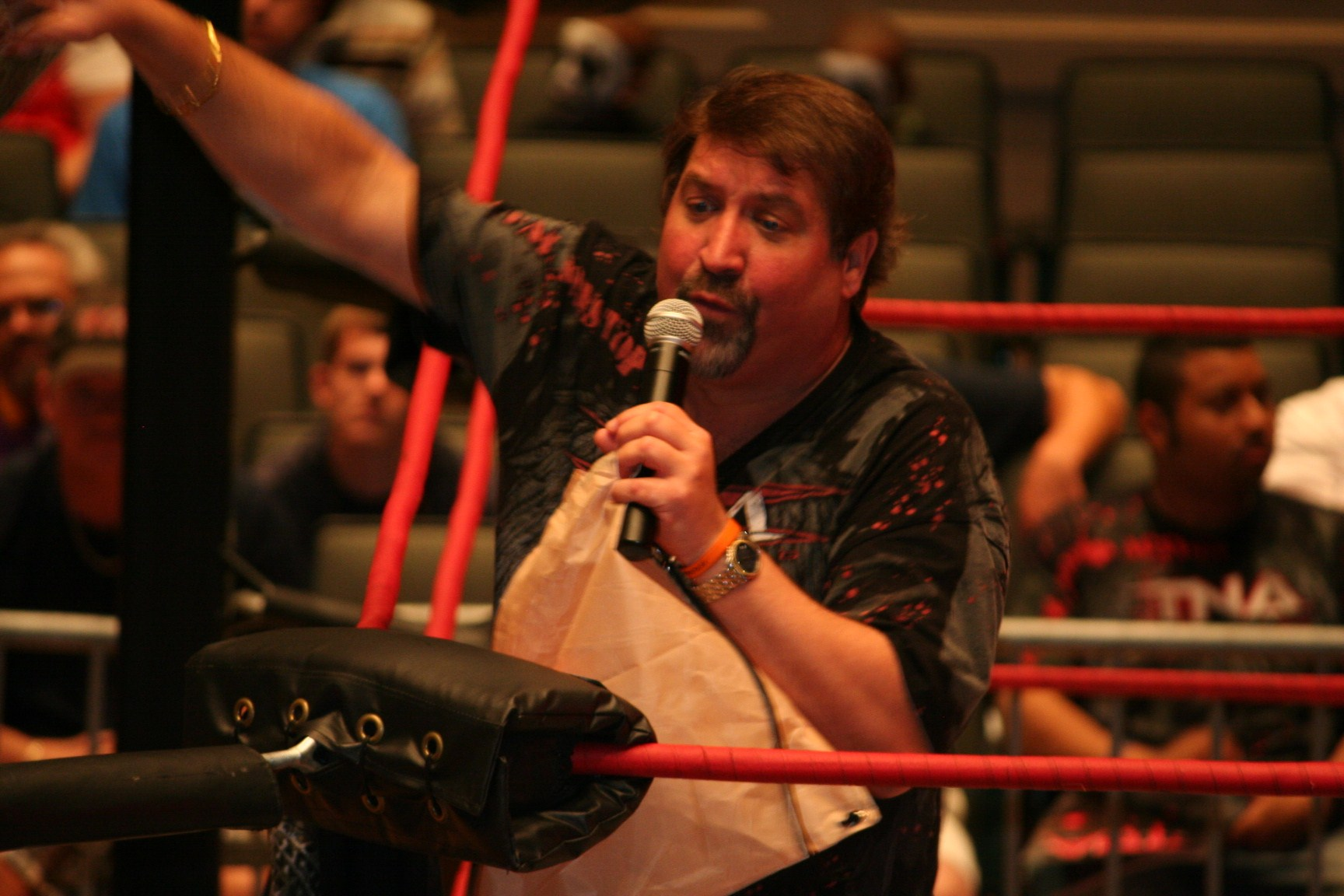 Don West at a TNA live event